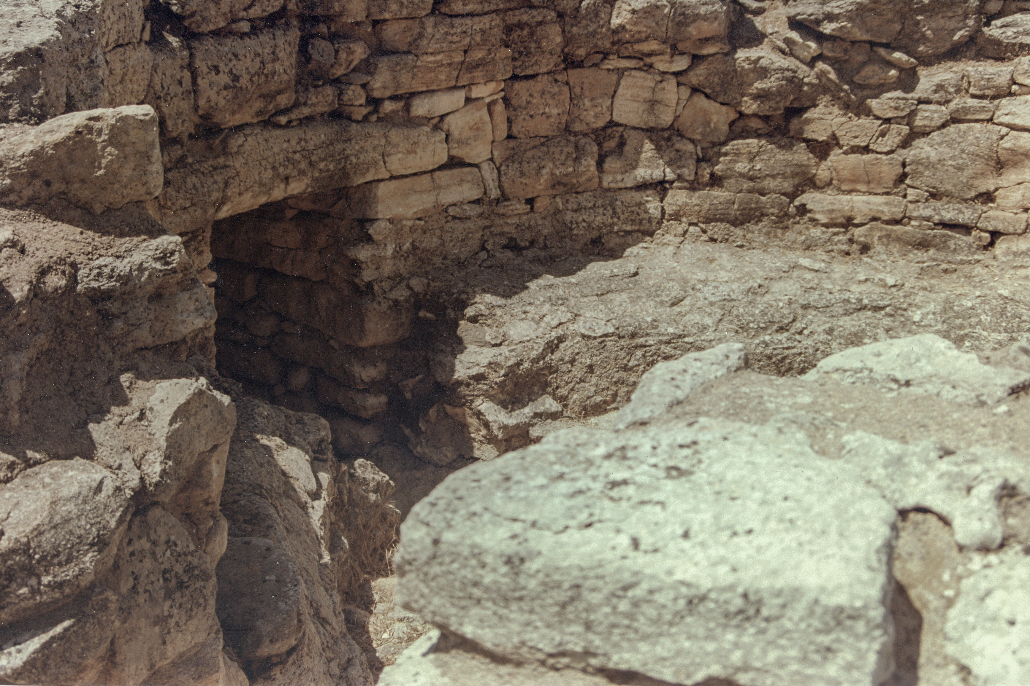 Minoan cemetery of Phourni near Archanes. Ruined tholos. Bronze Age.